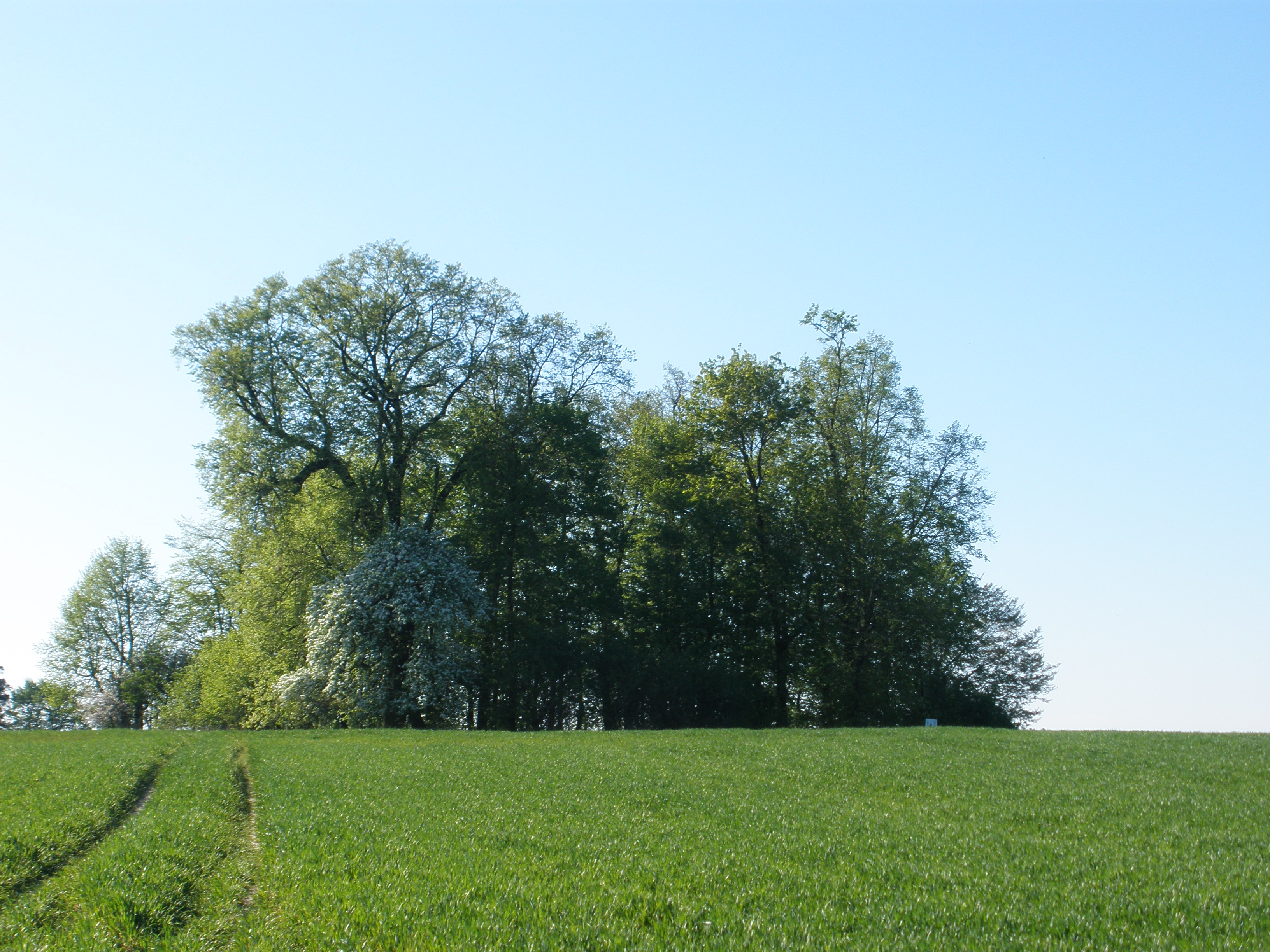 Place of the battle in 1311, near settlement Góry.